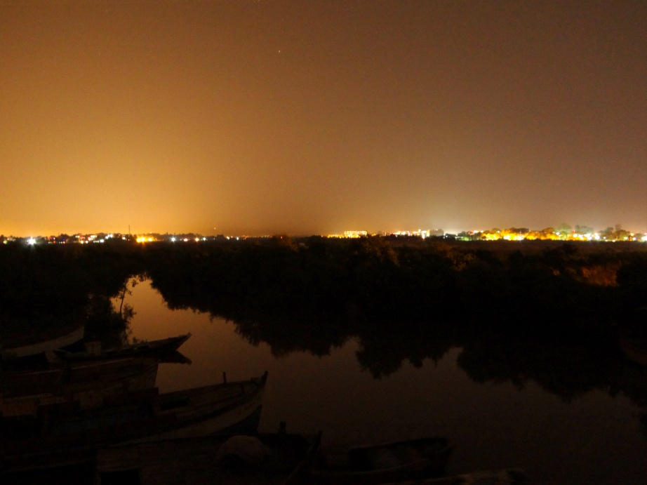 Brightly lit up area to the right is Naigaon railway station and Umele to the left